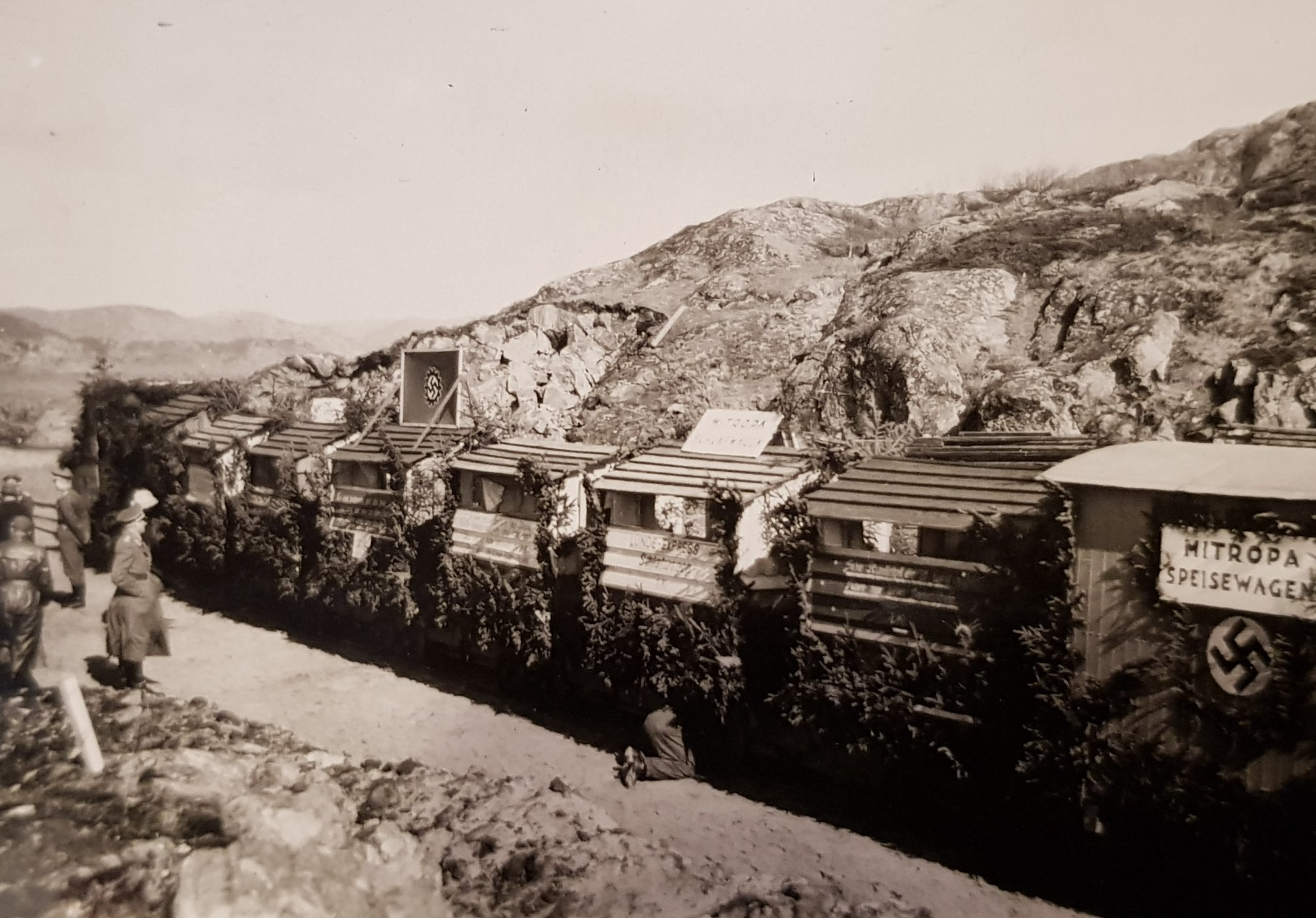 Opening of the 'Lunde-Bahn' in Farsund, Norway, on 19 April 1943 Hauptmann Burwick war dahinter Ob's im Sommer oder Winter Ob im Schnee gar oder Regen immer ran und sich bewegen Die Nägel waren nicht vorhanden Man wusst das Ding nicht mehr zu kaufen Die Firma Wahmann war so treu Sie war bei Tag und Nacht dabei. Es wurd geschmiedet kalt und heiss, Und dabei kam man zu dem Fleiss Die Nägel waren dann das Glück Im Ganzen warn's elftausend Stück Henschel Wilh. Wahmann Tiefbau Bochum 70 Räder müssen rollen für den Sieg! Henschel Wilh. Wahmann Tiefbau Bochum 65 Nach des Führers Plan bauten wir die LUNDE-BAHN MITROPA SPEISEWAGEN LUNDE-EXPRESS